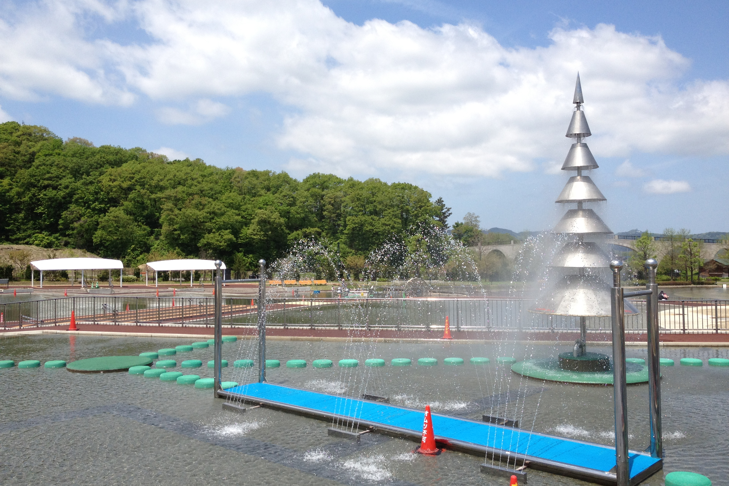 Water play zone of Koshi-no-ike Pond in Echigo Hillside National Government Park, Nagaoka, Niigata Prefecture, Japan